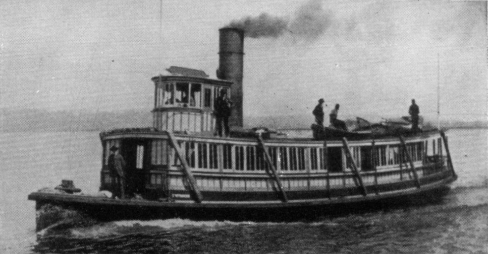 Typhoon, steamboat built at Portland, Oregon, in 1889; later transferred to Puget Sound and served under name Dove.